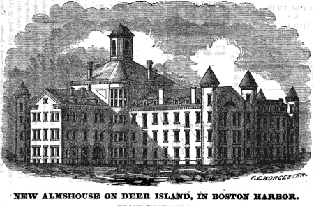 Alms House, Deer Island, Massachusetts